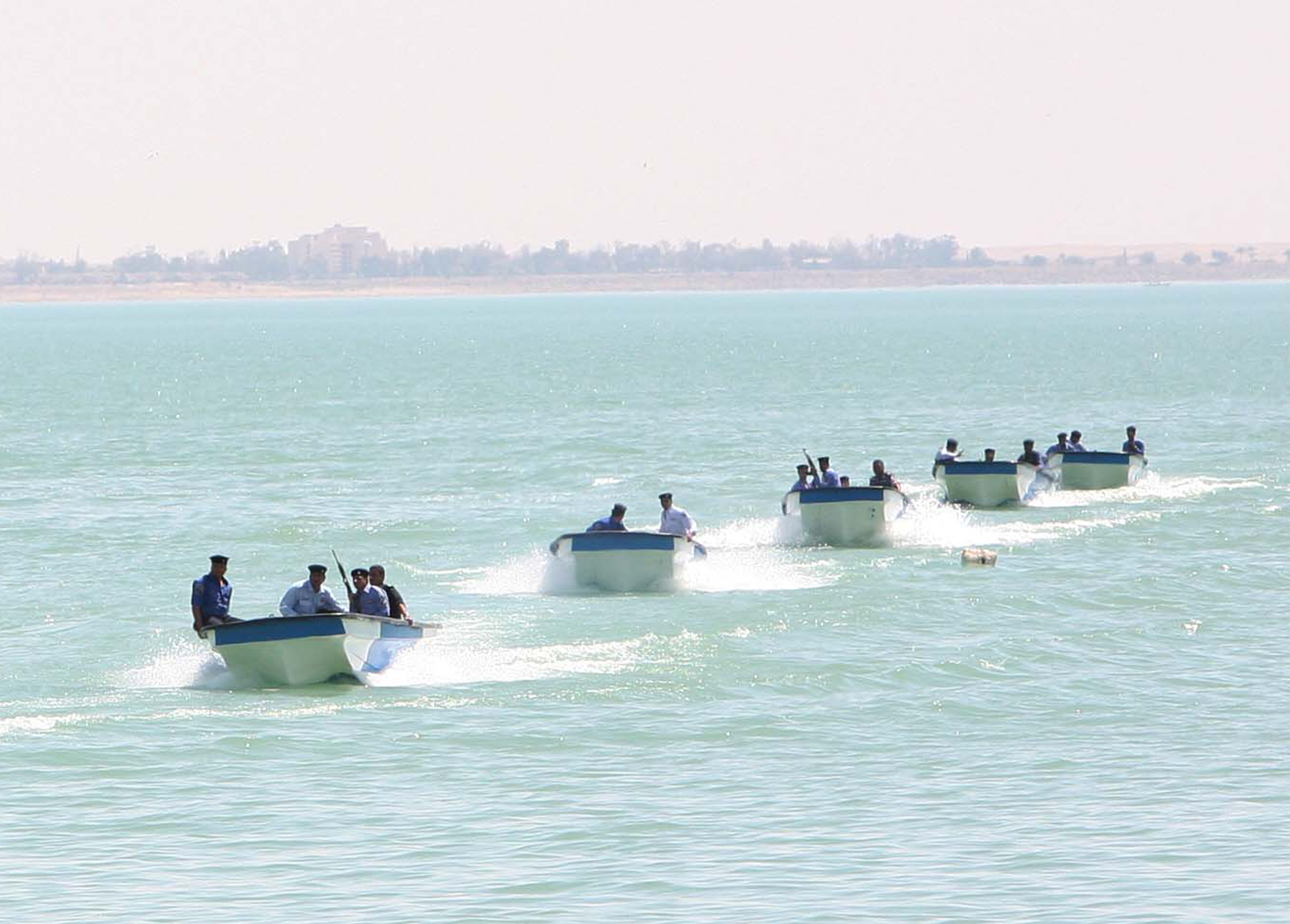 Lake Habbaniyah’s Iraqi River Police detachment demonstrates a waterborne formation during a ceremony held on the northern shore of Lake Habbaniyah, Iraq, April 21, 2009. During the ceremony, Coalition forces transferred seven refurbished boats to three IRP detachments who are responsible for interdicting criminal activity on Iraqi waterways throughout the Al Anbar province.